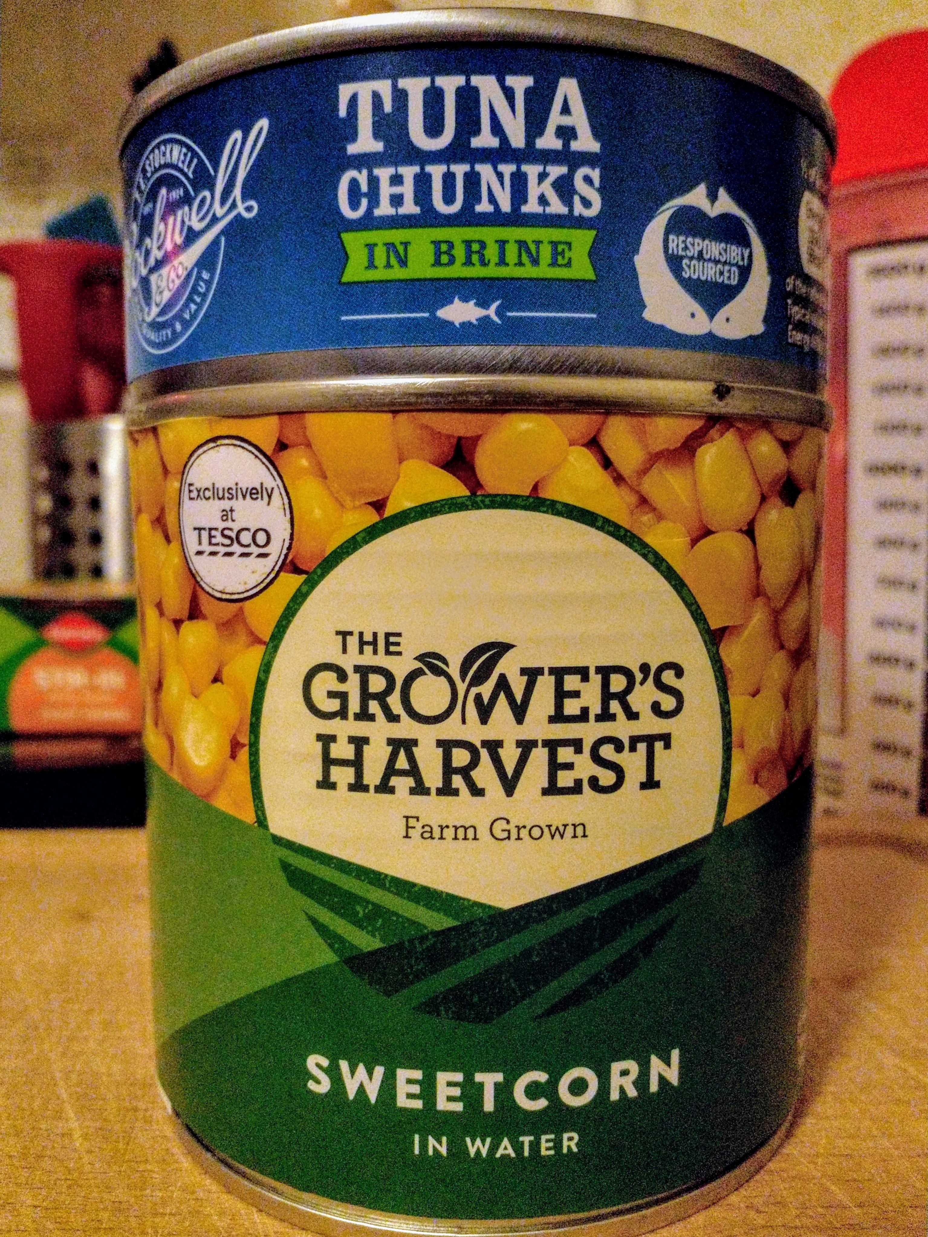 Two cans of food showing the different branding utilised by Tesco for its "Exclusively at Tesco" range. The top can is branded as "Stockwell and Co" while the bottom is branded as "The Growers Harvest".